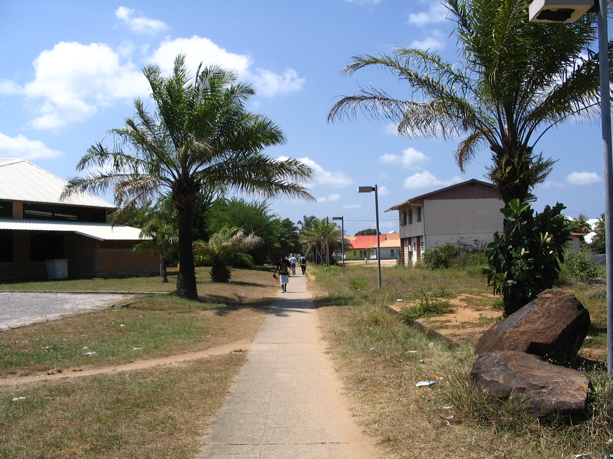 Allée du Bac, Kourou, French Guiana.